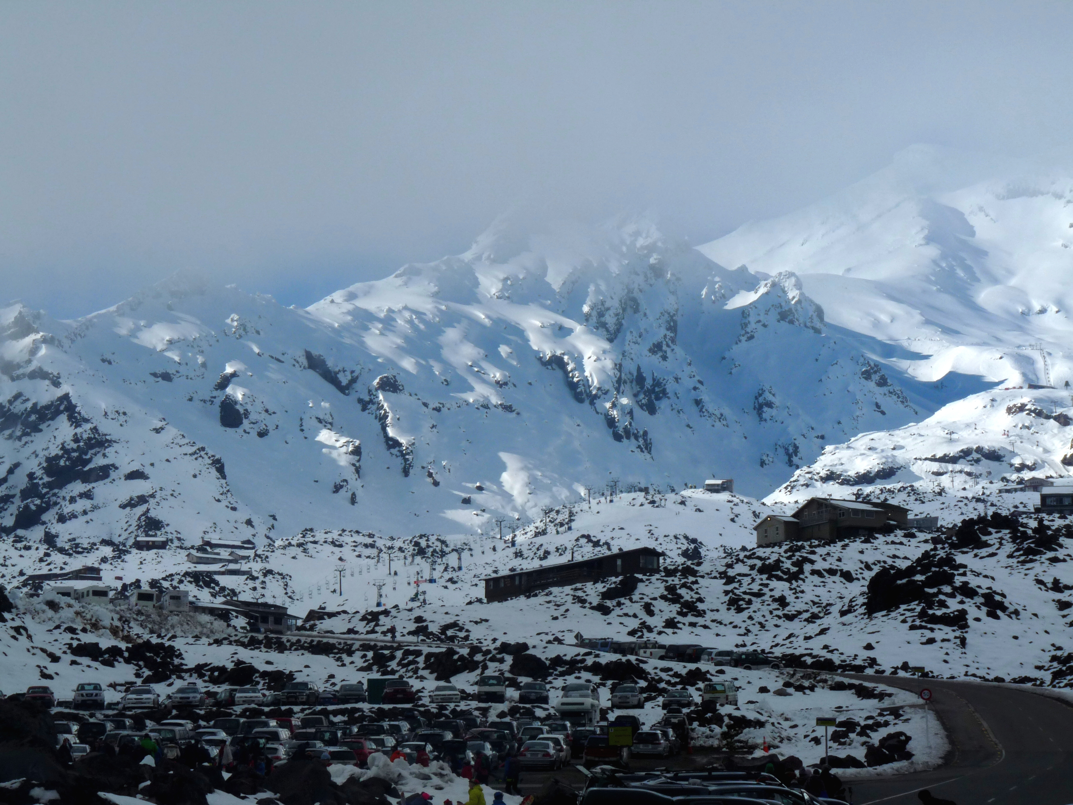 Looking upwards towards Whakapapa Skifield (on Mt. Ruapehu) from down at the carpark.